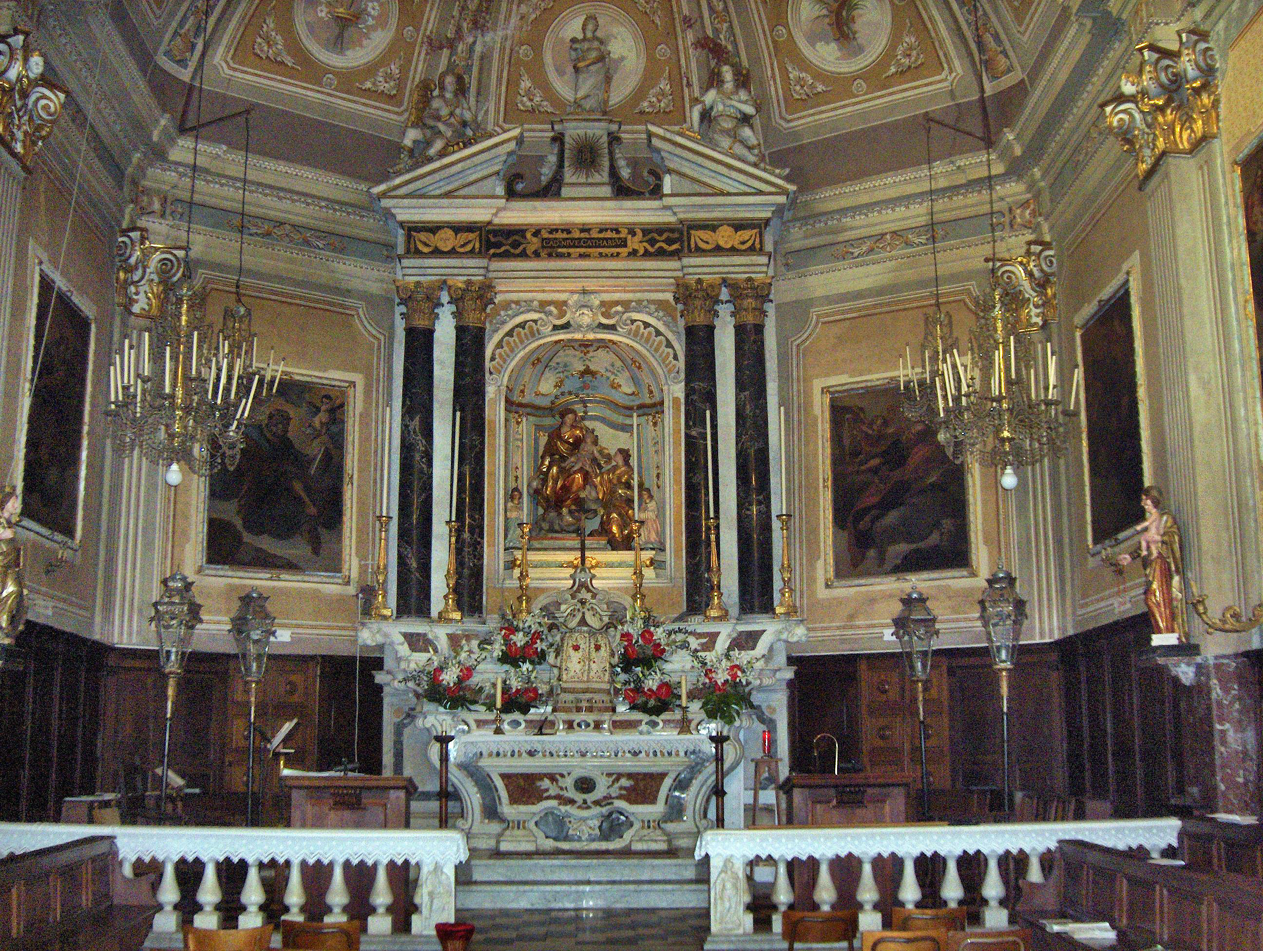 Oratory of St. Catherine of Alexandria; Church of S. Ambrogio, Alassio, Italy